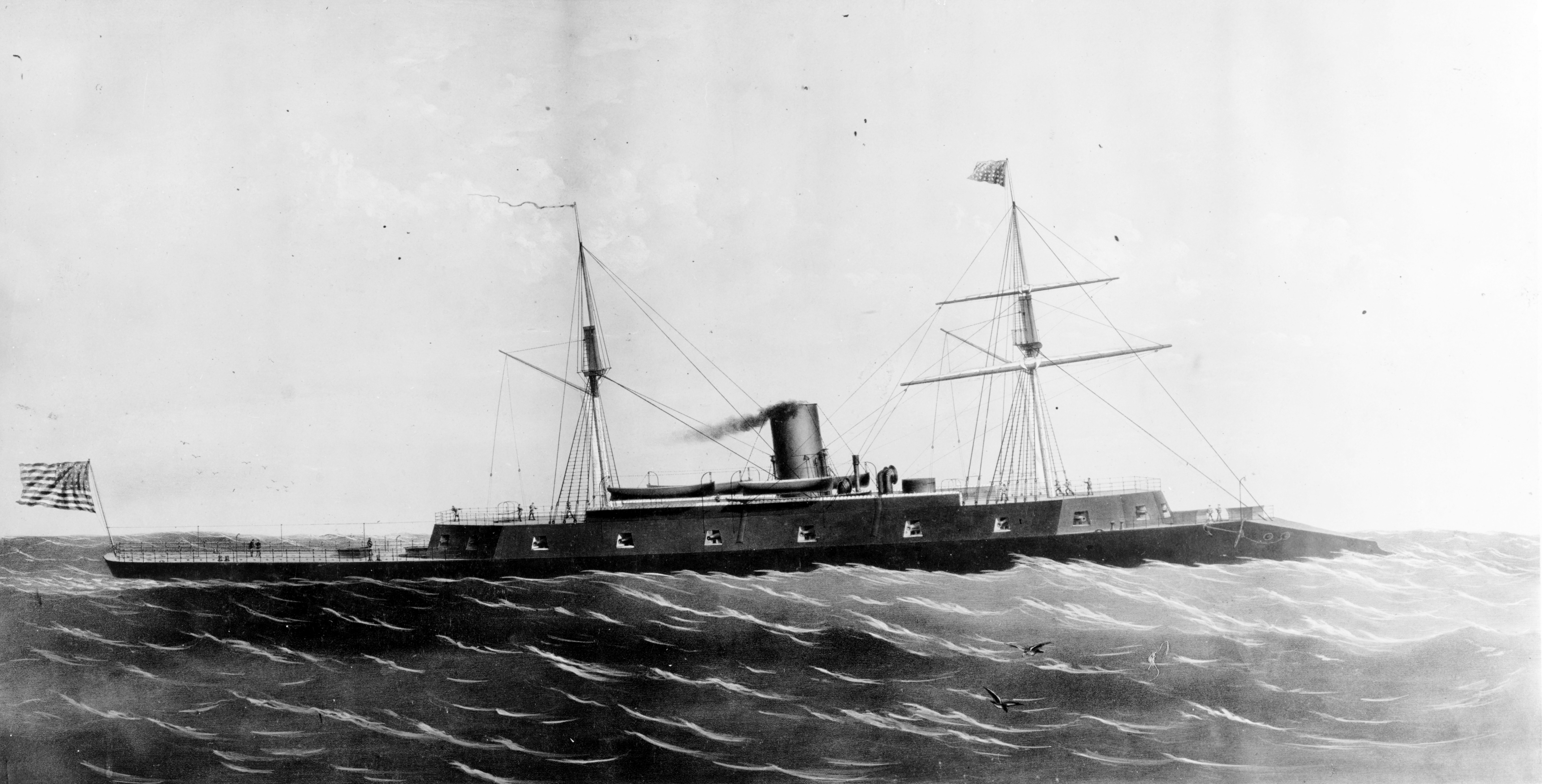 Lithograph of USS Dunderberg.